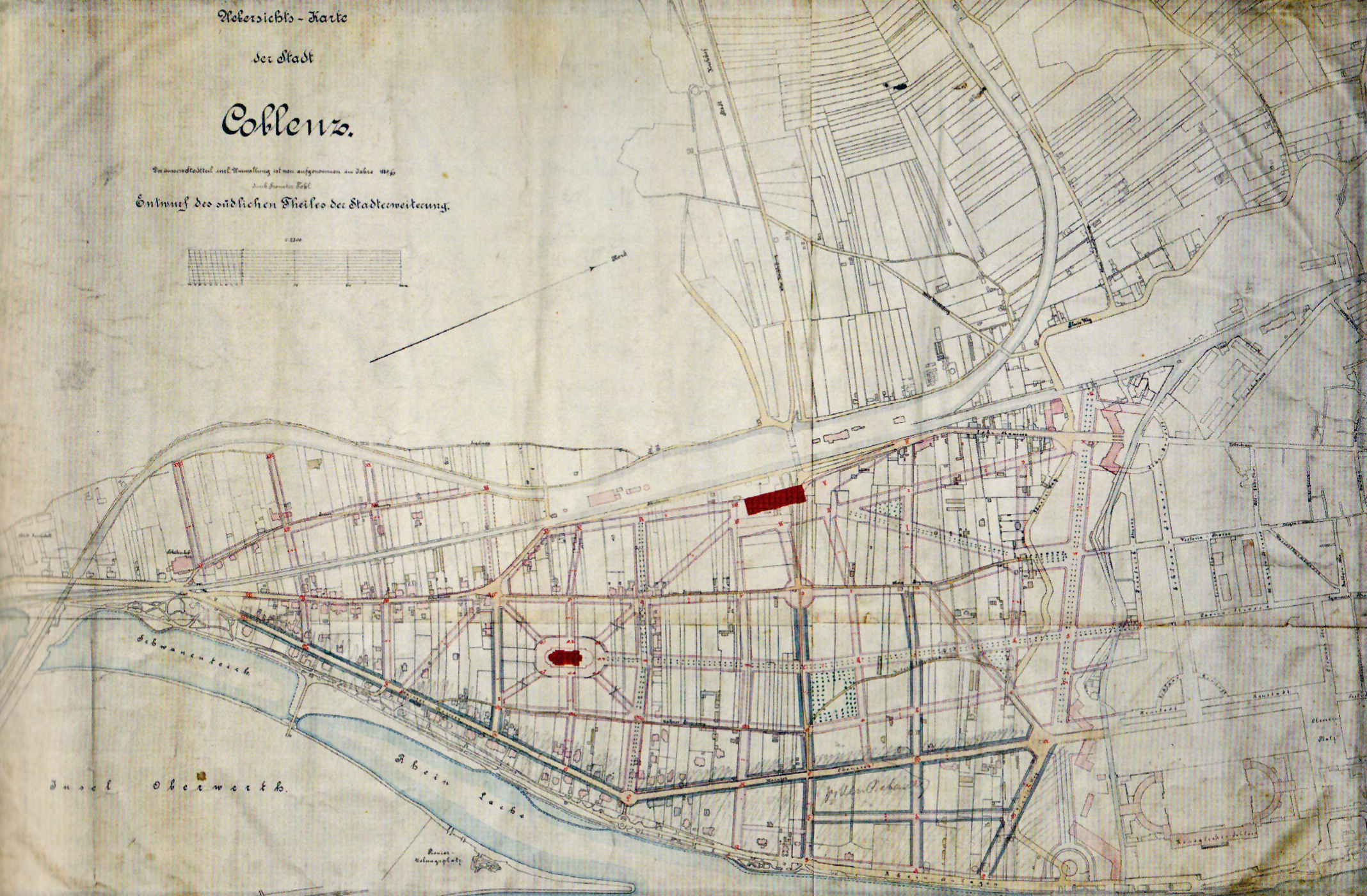 Map of southern city expansion in Koblenz